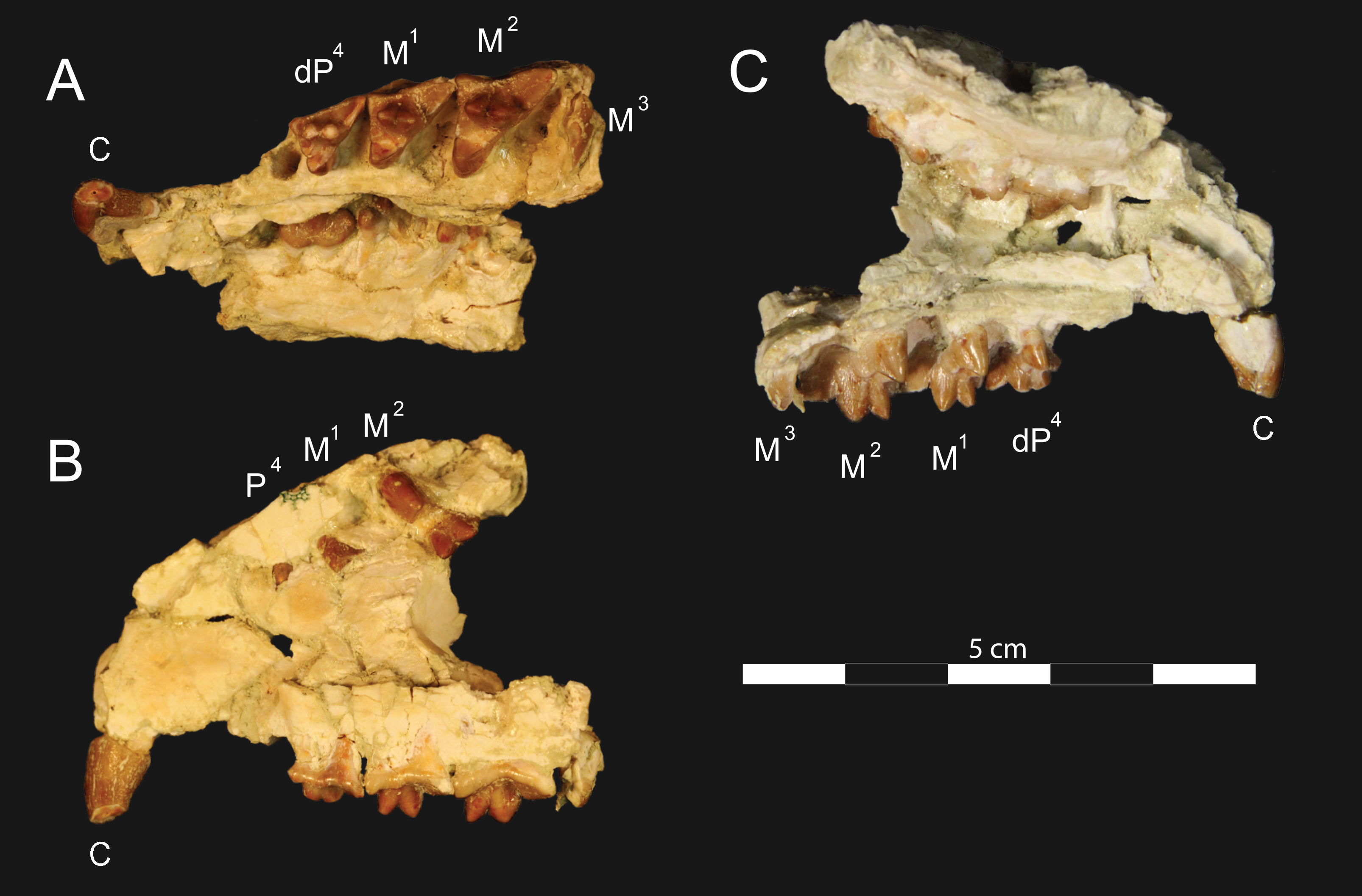 rostrum of Brychotherium DPC 17627, rostrum with left canine, dP4–M3 (M3 erupting) and alveolus for dP3 and right P4–M2; A: occlusal view of left dentition, buccal aspect of right dentition visible; B: buccal view of left dentition, protocones of right P4–M2 and M2 paracone and metacone visible; C: lingual view of left dentition, buccal aspect of right dentition visible. Postmortem distortion involuted right side of rostrum. Occlusal portions of right dentition protrude through left maxilla